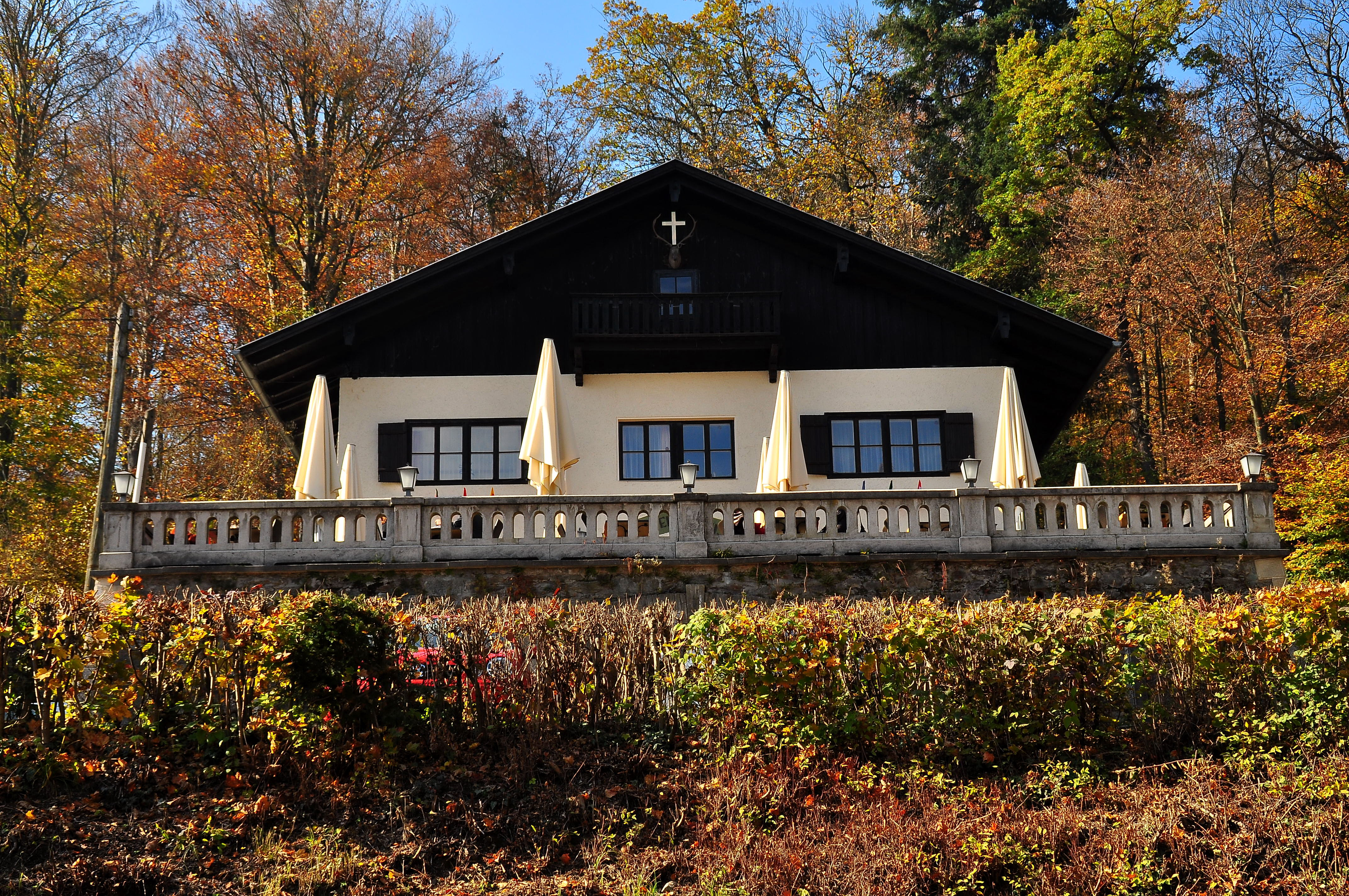 Restaurant Schweizerhaus, Kreuzbergl 11, 8th district "Villacher Vorstadt", capital Klagenfurt on the Lake Woerth, Carinthia / Austria / EU